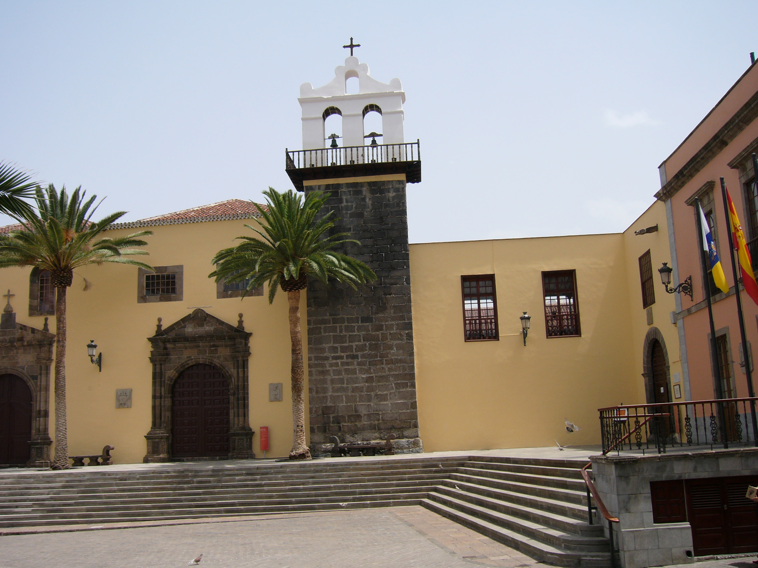 Garachio, Tenerife, Canary Islands, Spain Sept. 2005 Olaf A. Koch own picture